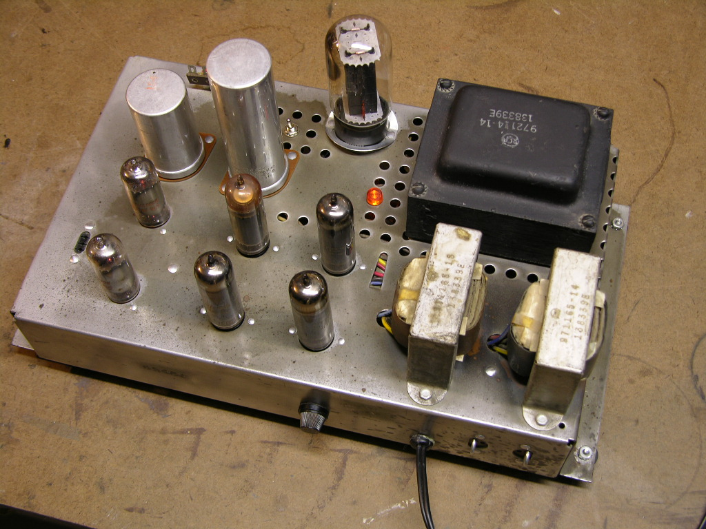 RCA Tube Stereo Power Amplifier - Model RS177J Circa 1964